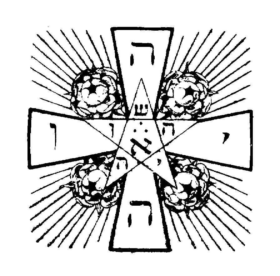 Illustration from 19th-century occultistic/mystical work -- version of Rosy Cross symbol with the Hebrew Tetragrammaton divine name on the arms of the cross, and the Pentagrammaton in the inner pentagram.